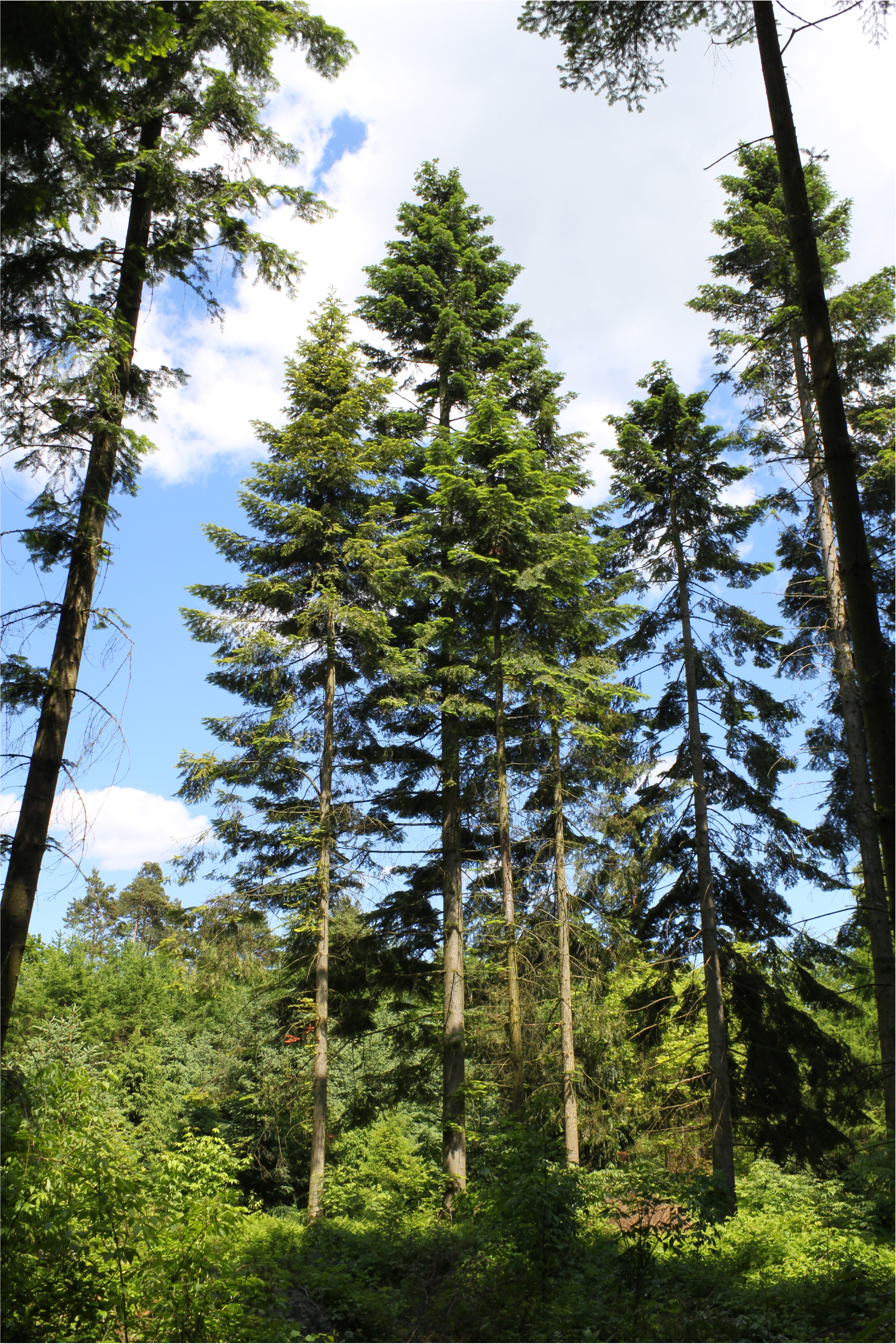 Grand Fir (Abies grandis) in Rogów Arboretum, Poland